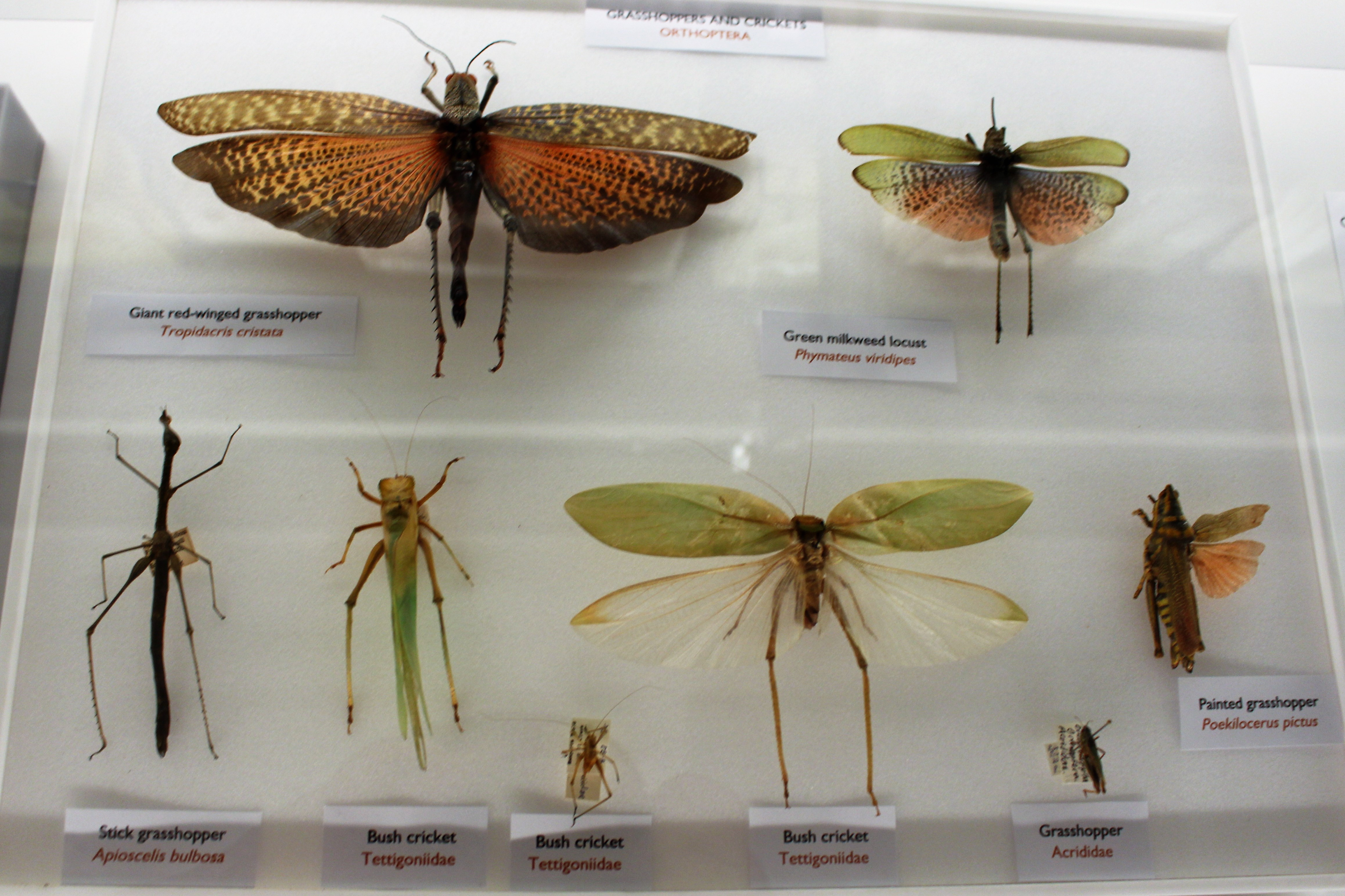 Orthoptera sp. at the Cambridge University Museum of Zoology, England. From left to right and from top to bottom: Tropidacris cristata, green milkweed locust or African bush grasshopper (Phymateus viridipes), Apioscelis bulbosa, unidentified Tettigoniidae sp., unidentified Tettigoniidae sp., Siliquofera grandis, unidentified Acrididae sp. and painted grasshopper (Poekilocerus pictus).